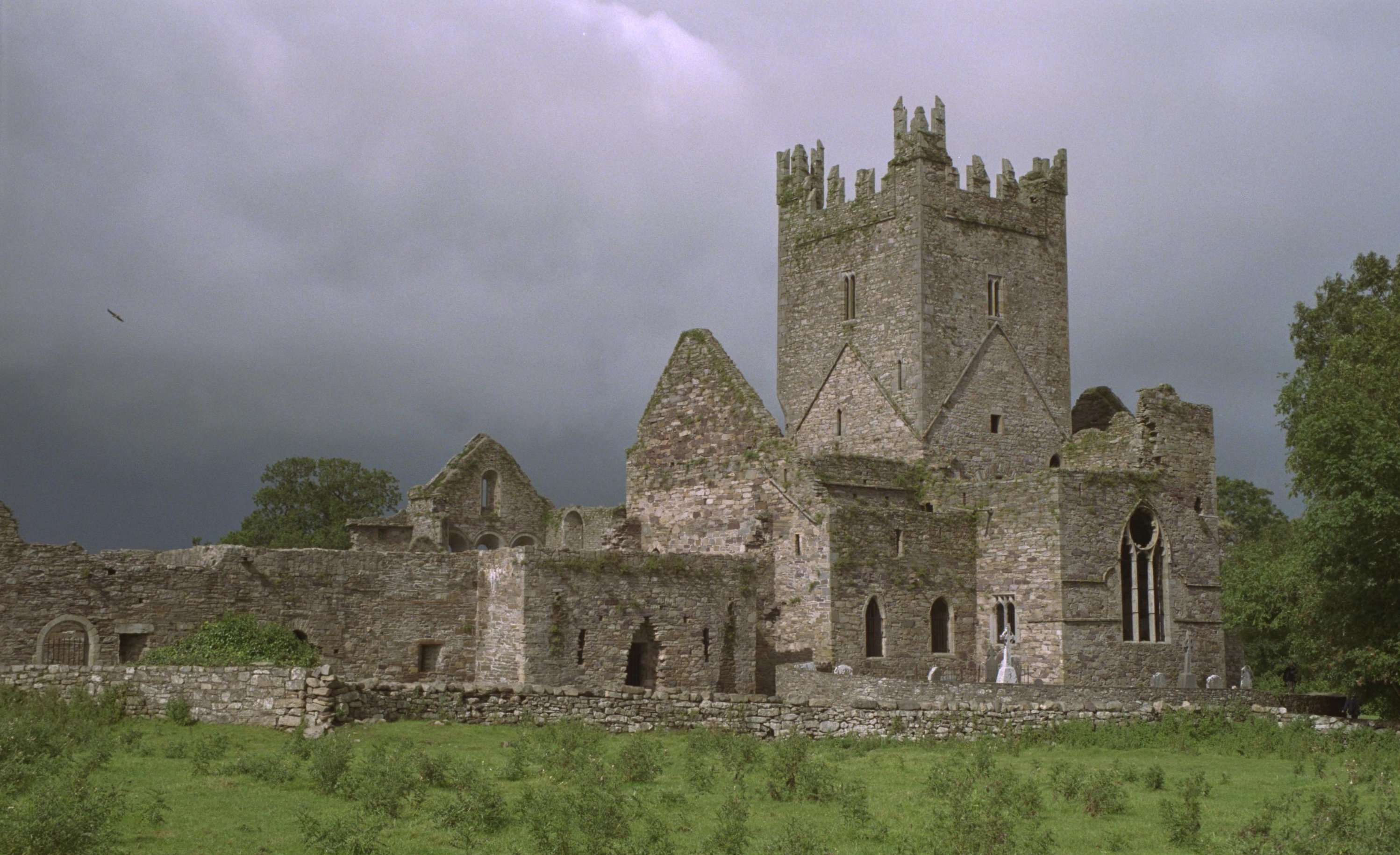 Jerpoint Abbey, County Kilkenny, Ireland East view of the abbey